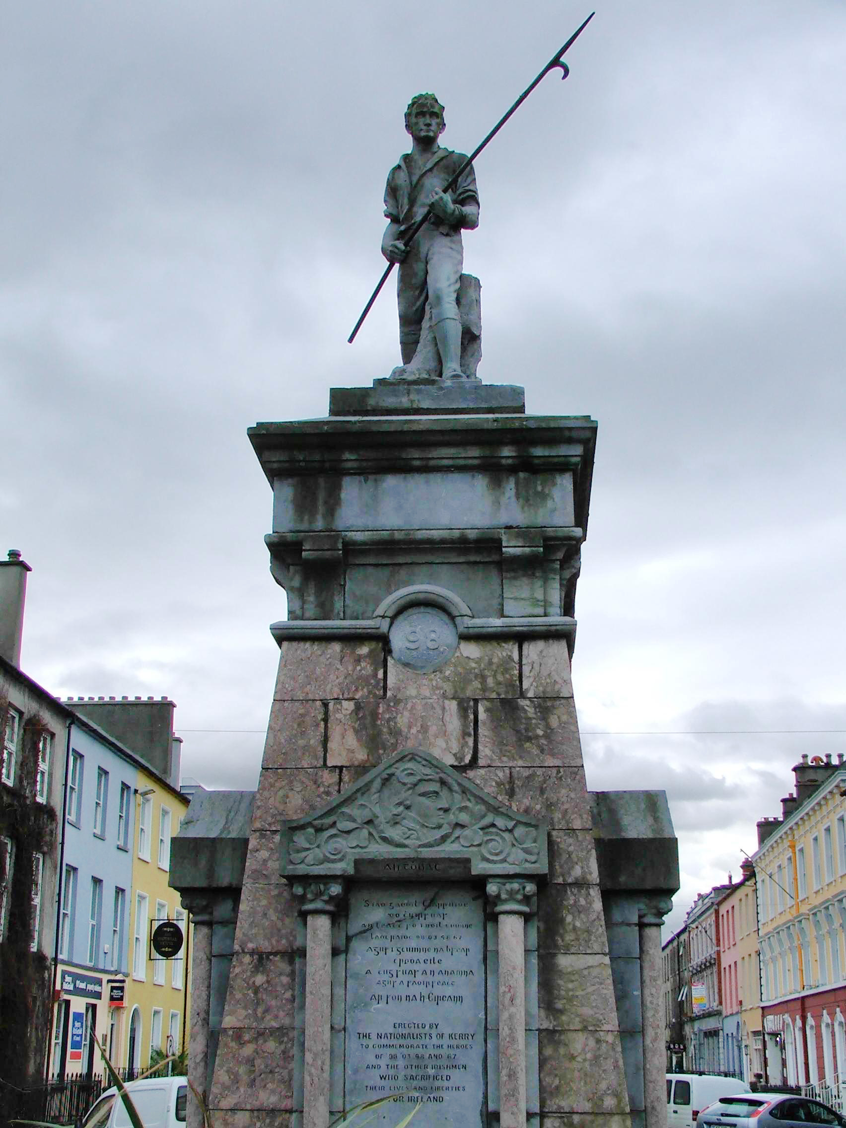 Croppy Boy, Pikeman 1798 Monument, Tralee, Co Kerry, Ireland